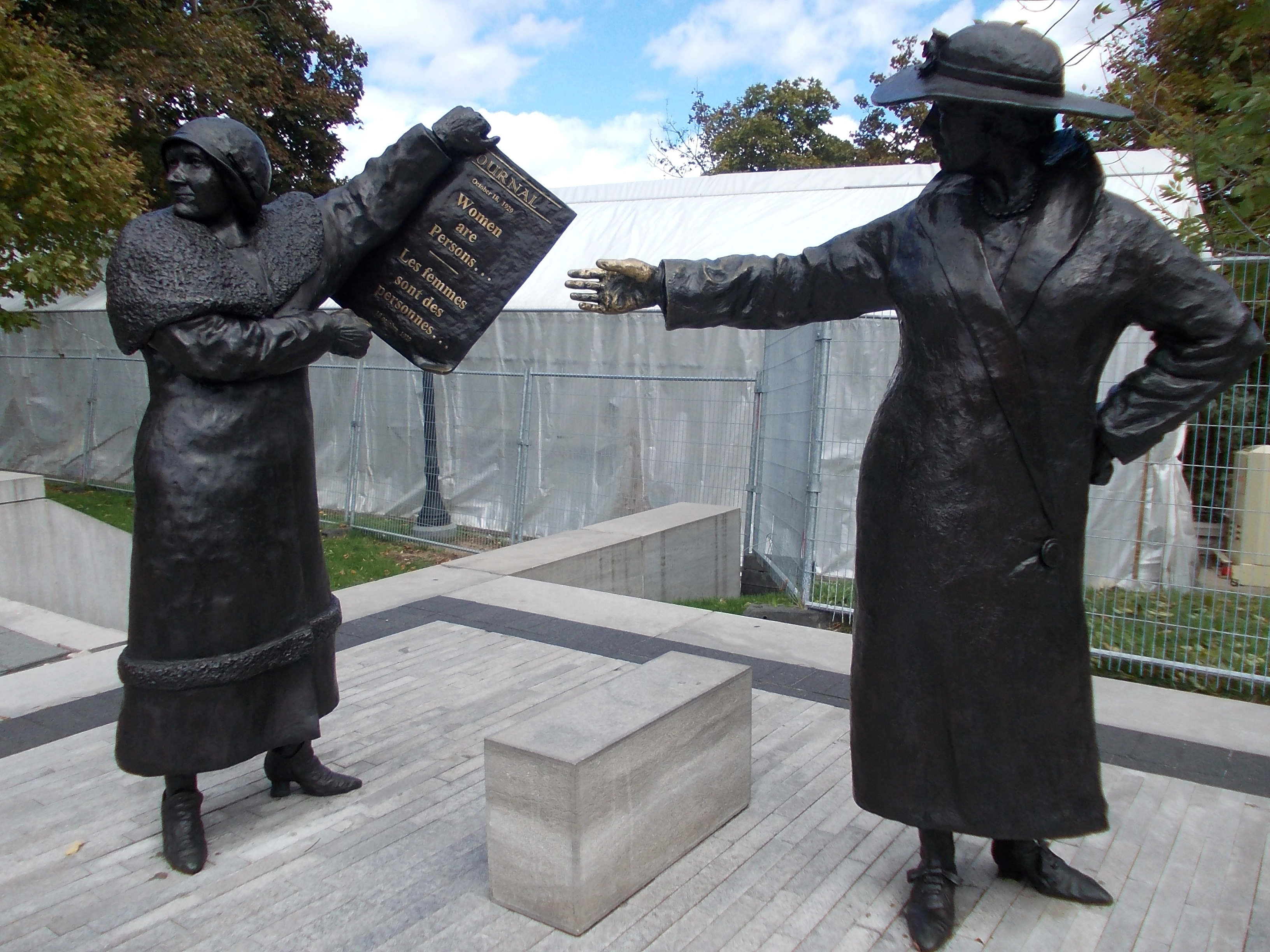 Statue of The Famous Five (part)